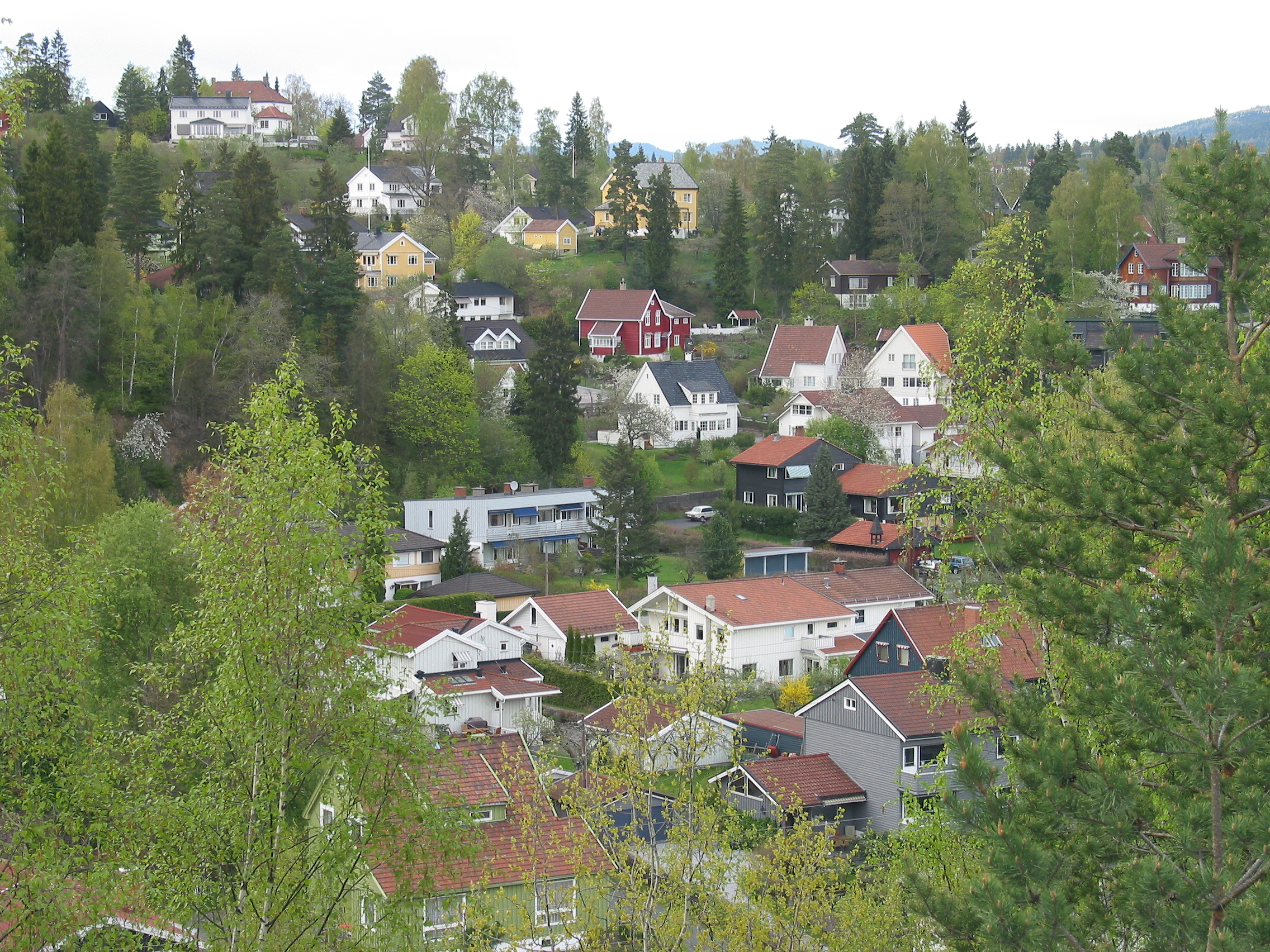 Overview over a portion of lower Jar, Bærum, Norway. Viewed from a house at Malurtåsen, Stabekk, Bærum, Norway.